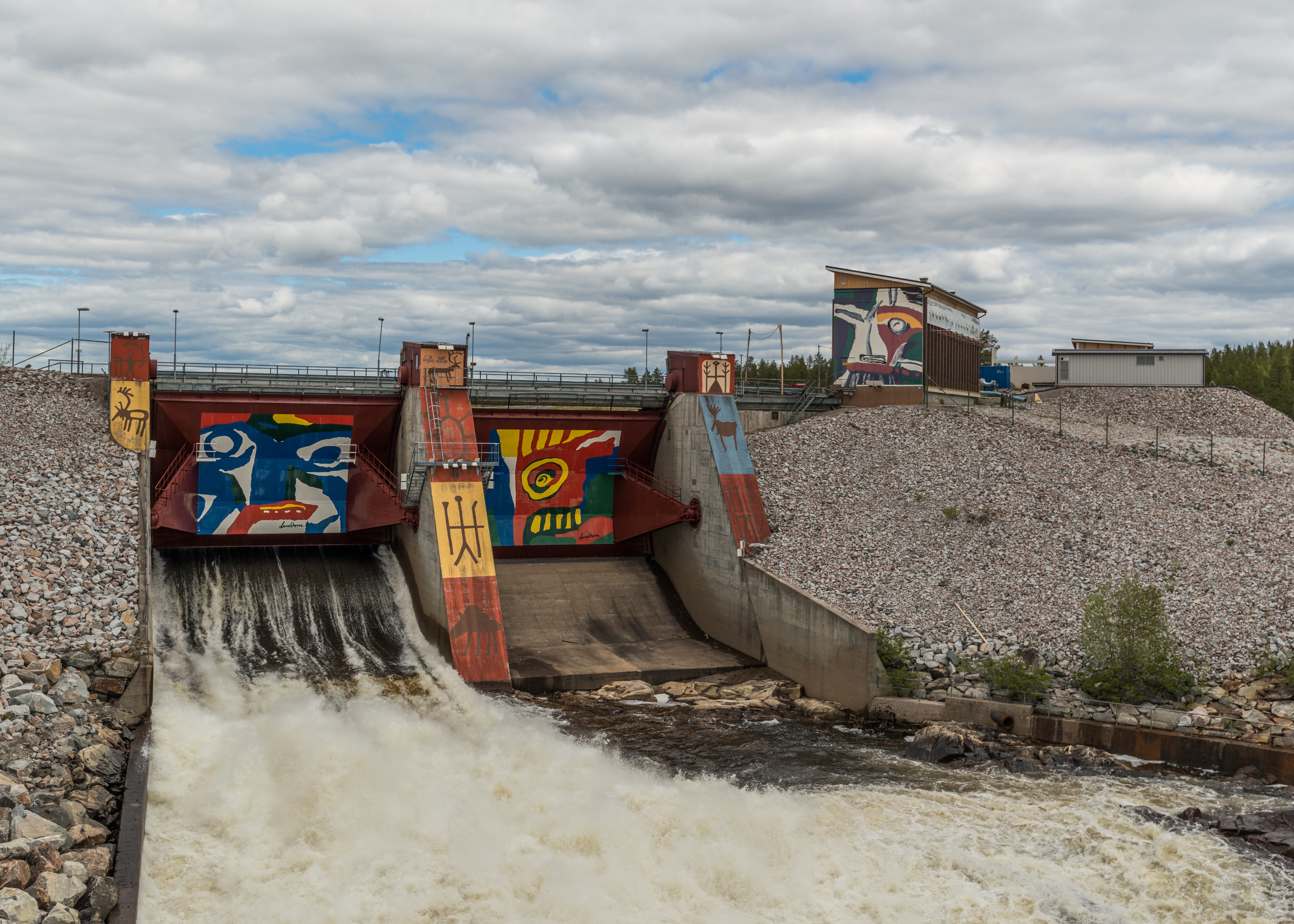 A south view of Akkats kraftstation